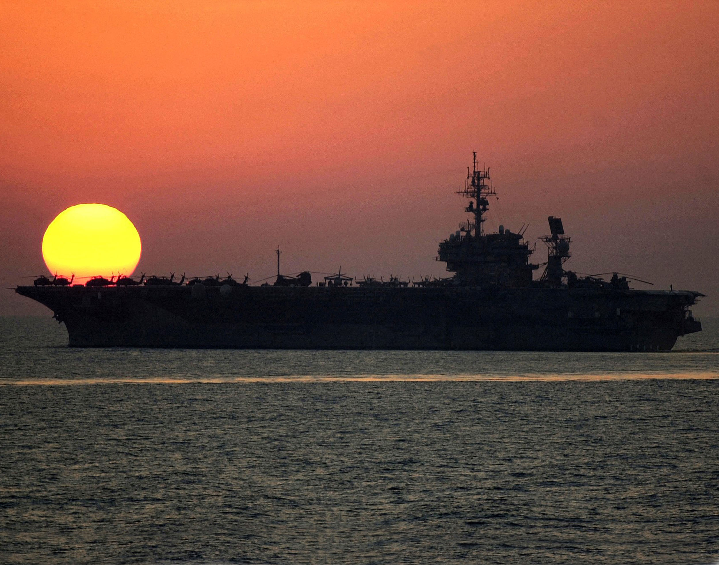 "The USS Kittyhawk (sic) underway in support of Operation Enduring Freedom-Afghanistan in 2001. 160th Special Operations Aviation Regiment helicopters are visible on the vessel’s flight deck."